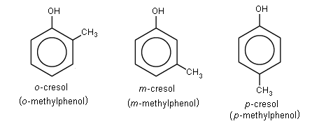 Chemical Structures of Cresol isomers